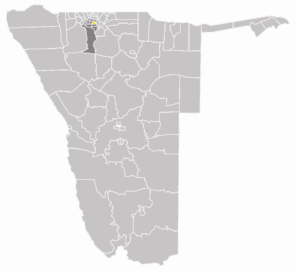 map of the Ondangwa constituency within the Oshana region, Namibia